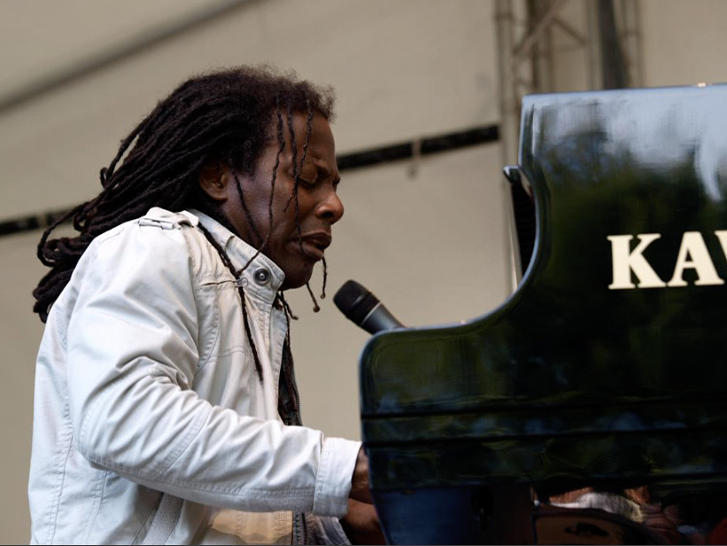 Ramon Valle, offside Festival 2008, Geldern/Germany